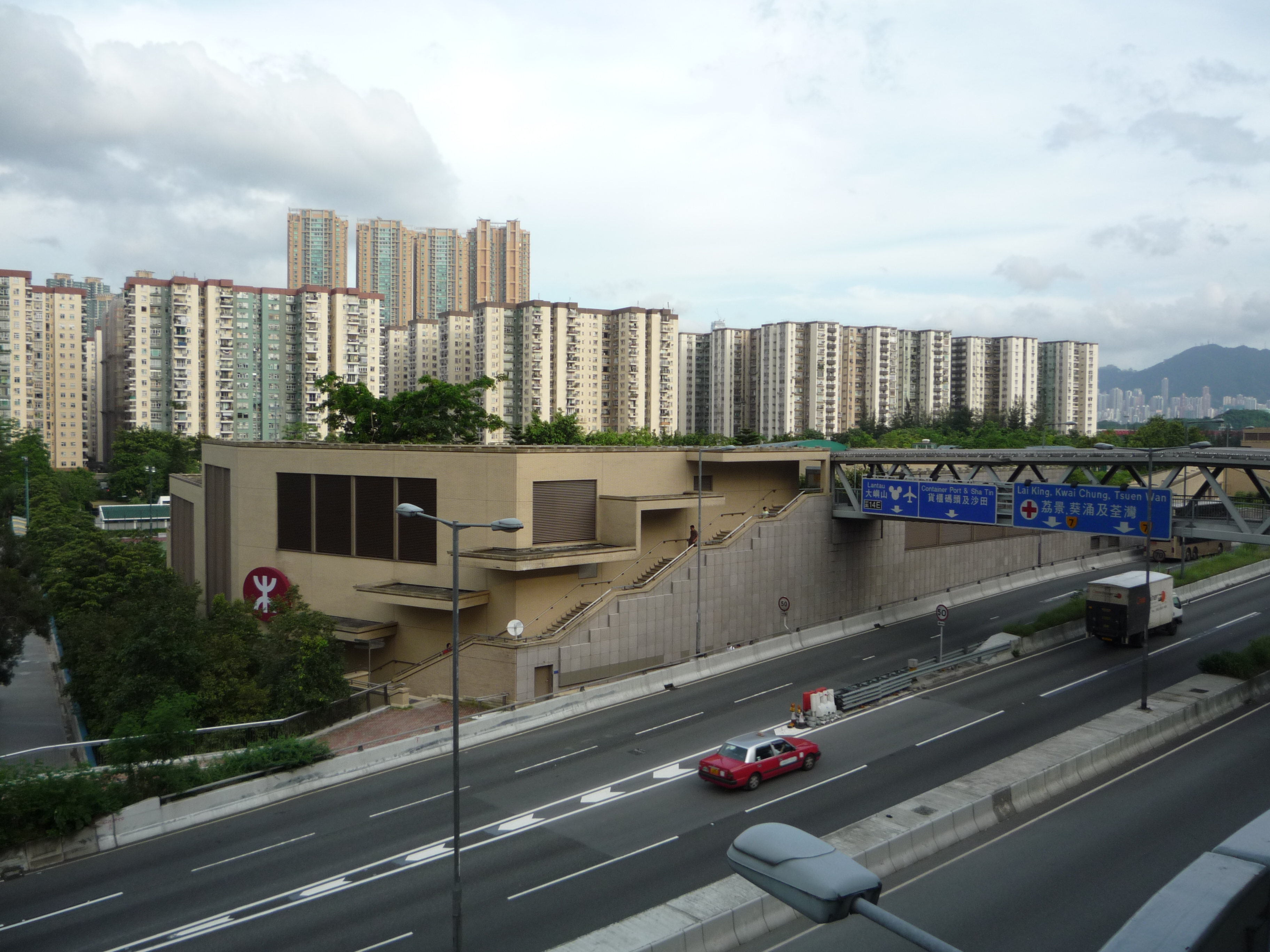 Appearance of MTR Mei Foo Station